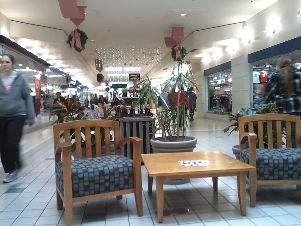 Inside of Bay City Mall.